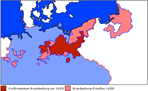 The lands of Brandenburg around 1600.